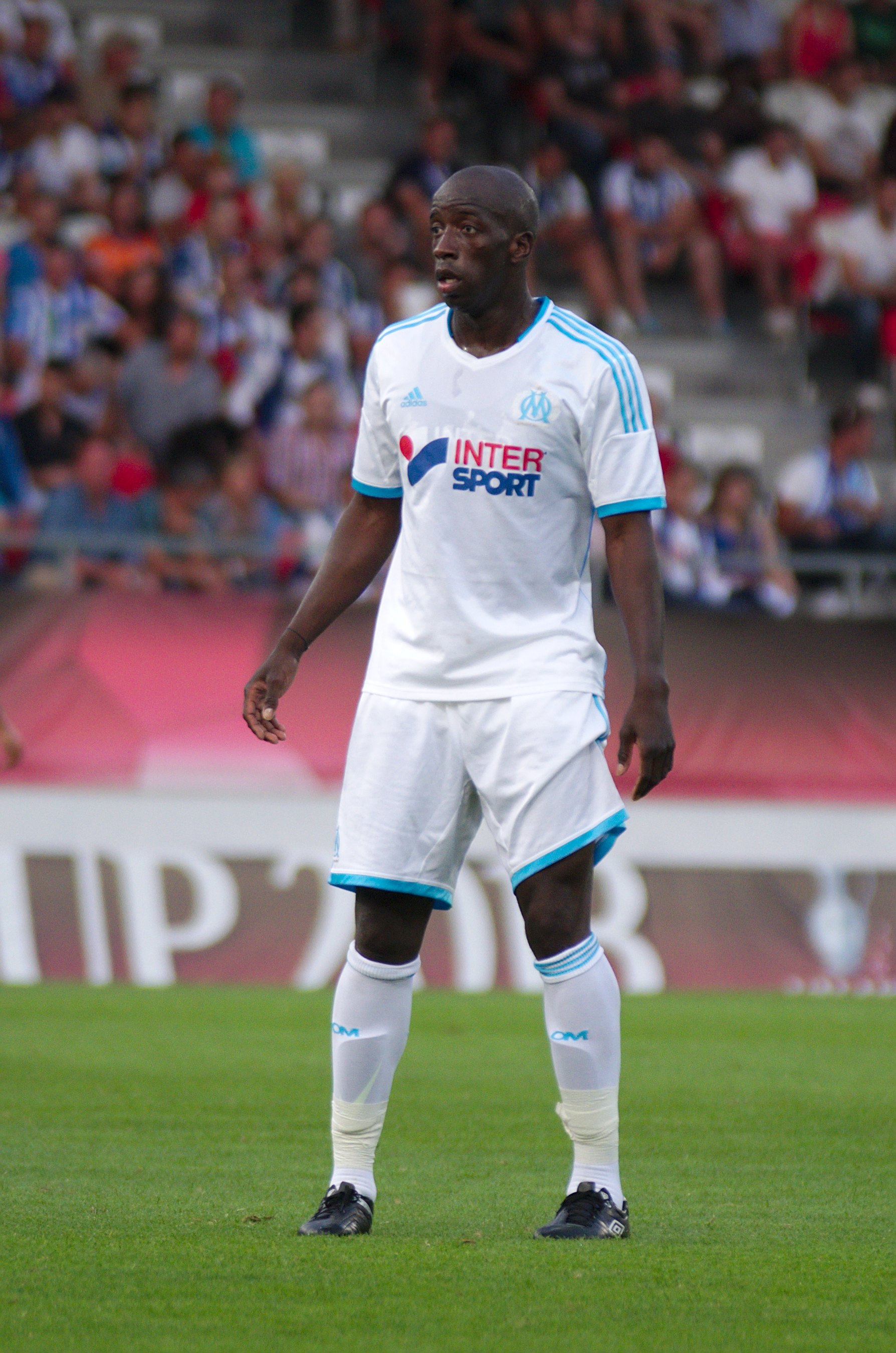 Valais Cup 2013 - OM-FC Porto - 20130713 - Souleymane Diawara